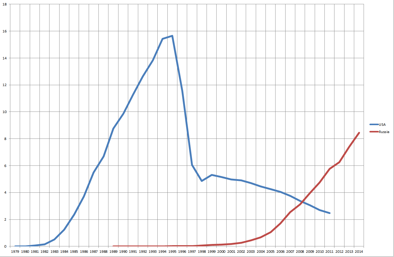 Confirmed HIV mortality in the USA and Russia per 100,000 population, 2014 projected based on 4 months